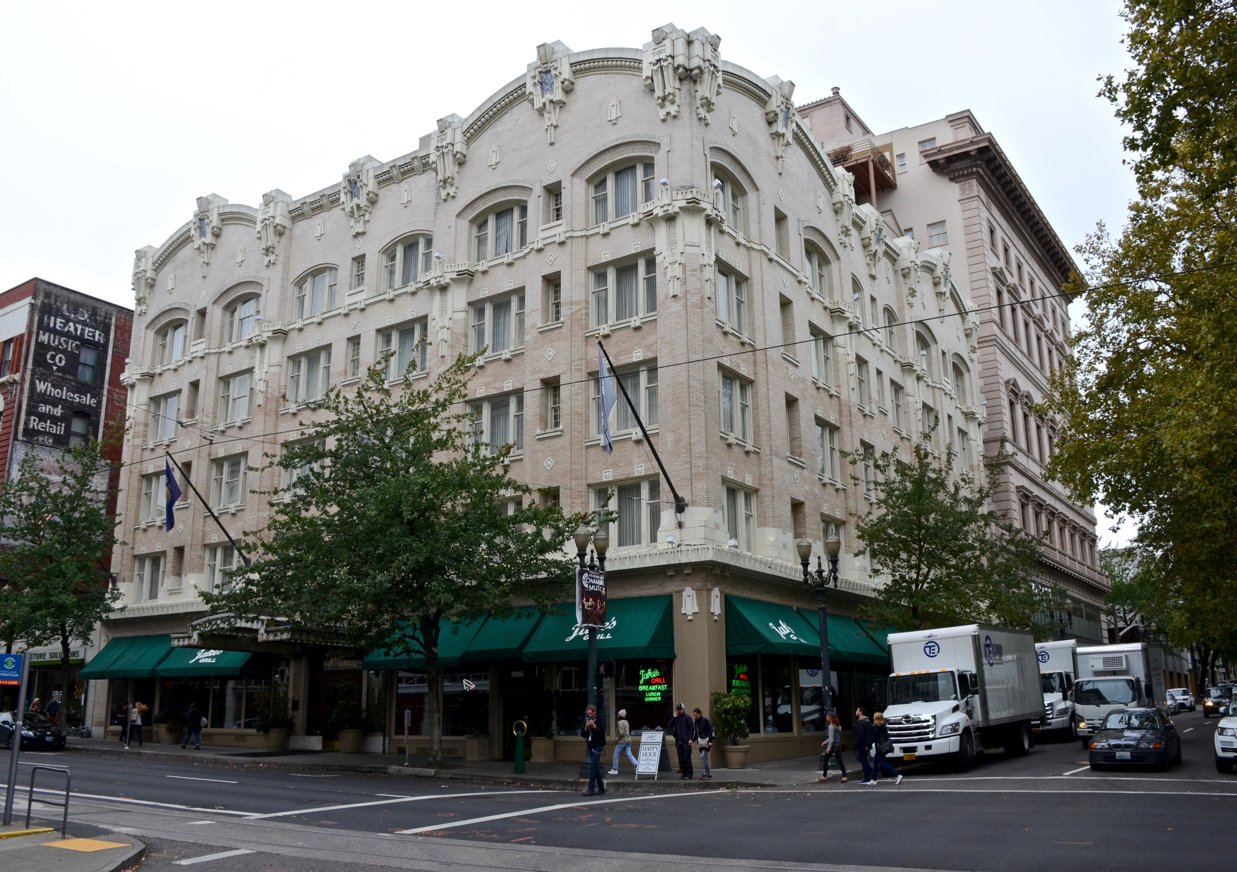 The Sentinel Hotel's east wing, built in 1909 as the Seward Hotel (and renamed the Governor Hotel in 1931), from the east, from across the intersection of 10th & Alder, in downtown Portland, Oregon. The Sentinel Hotel's west wing, built in 1923 as the Elks Temple, is in the righthand background.